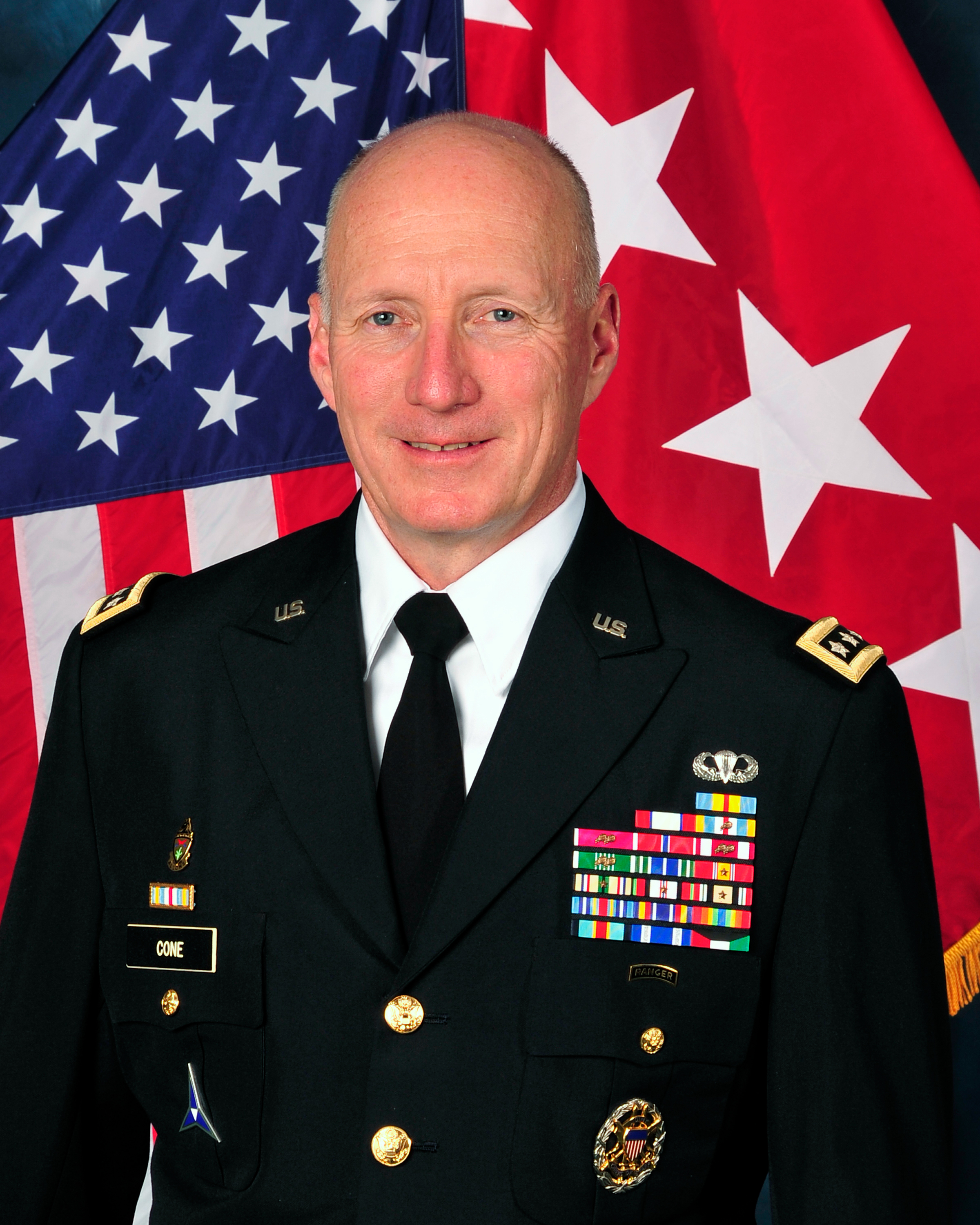 General Robert W. Cone, USA Commanding General, U.S. Army Training and Doctrine Command